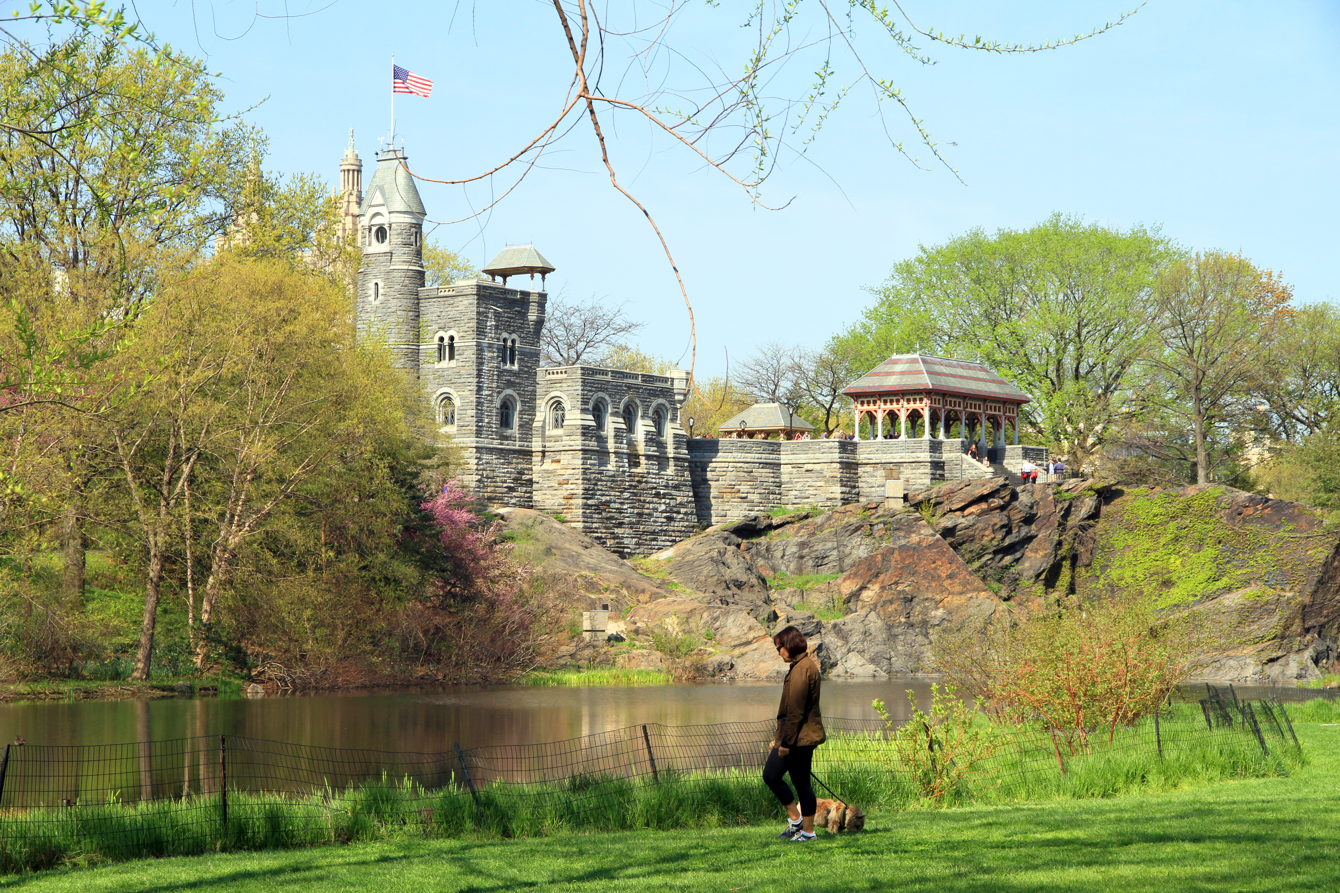 Belvedere Castle